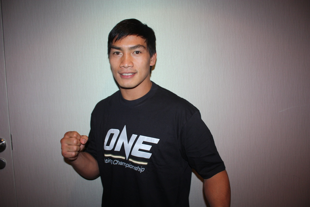 Picture of Filipino MMA fighter Eduard Folayang in Holiday Inn Hotel, Singapore.